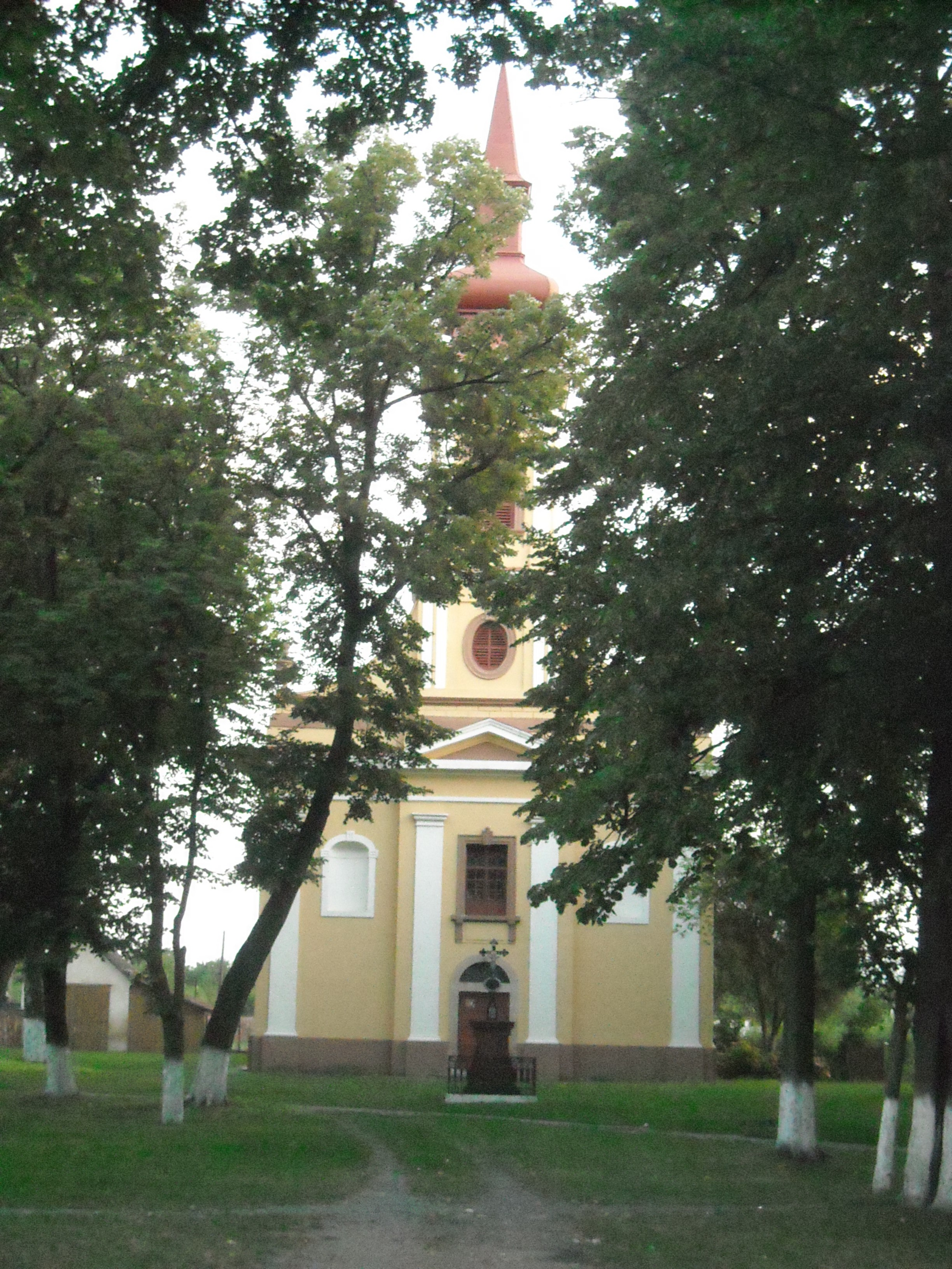 Roman Catholic church in Frumușeni/Schöndorf, Arad County, Romania